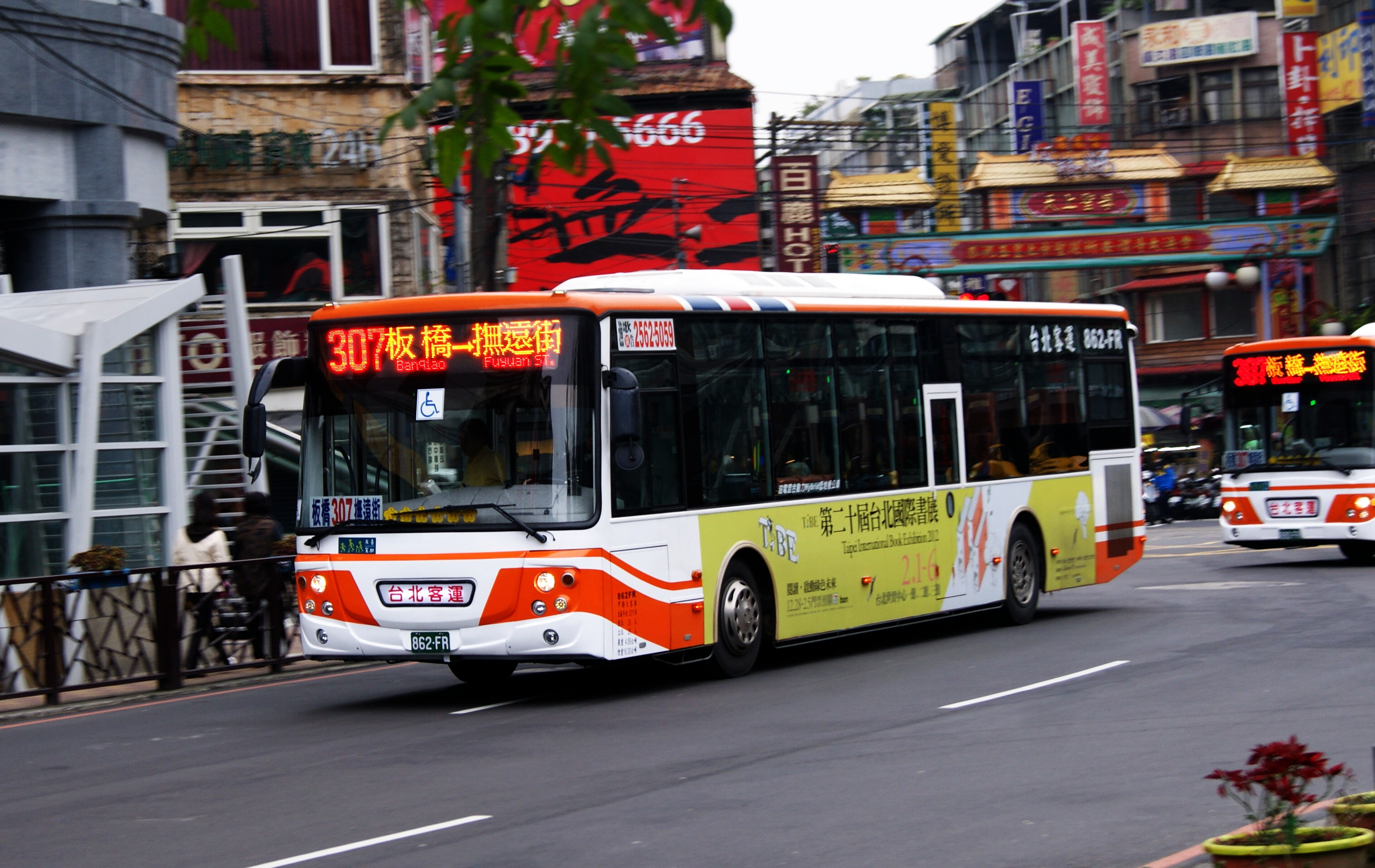 FOTON BJ6123 bus 862-FR of Taipei Bus, its main paint is different from pasts. This bus has stuck an official advertisement of the 2012 Taipei International Book Exhibition. 中文（台灣）: 台北客運FOTON BJ6123大客車862-FR在2011年下半季的塗裝，本車當時已上刊2012年台北國際書展的公車廣告。